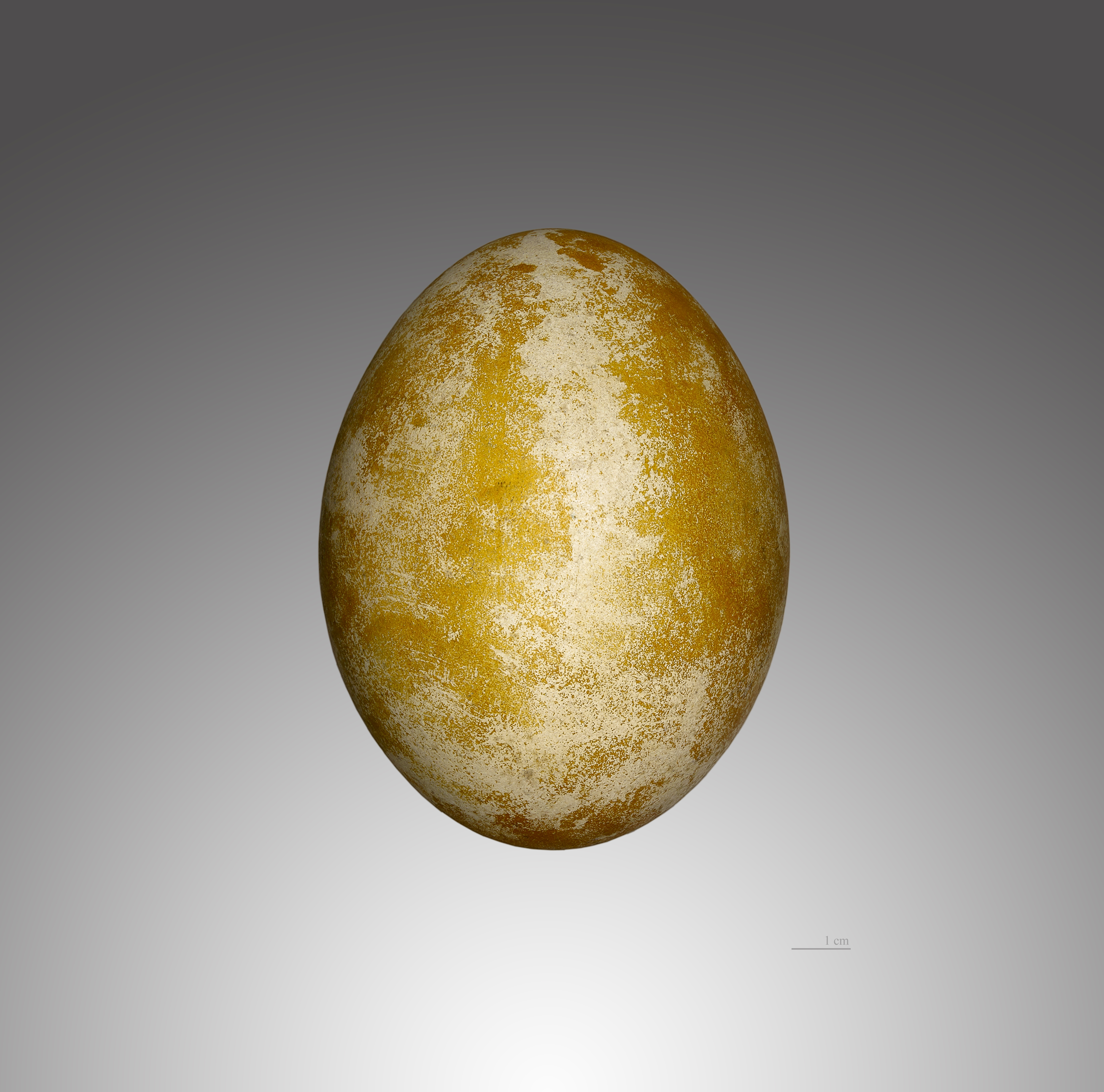 Egg of Bearded Vulture. Collection of Jacques Perrin de Brichambaut. Locality: Sardinia.